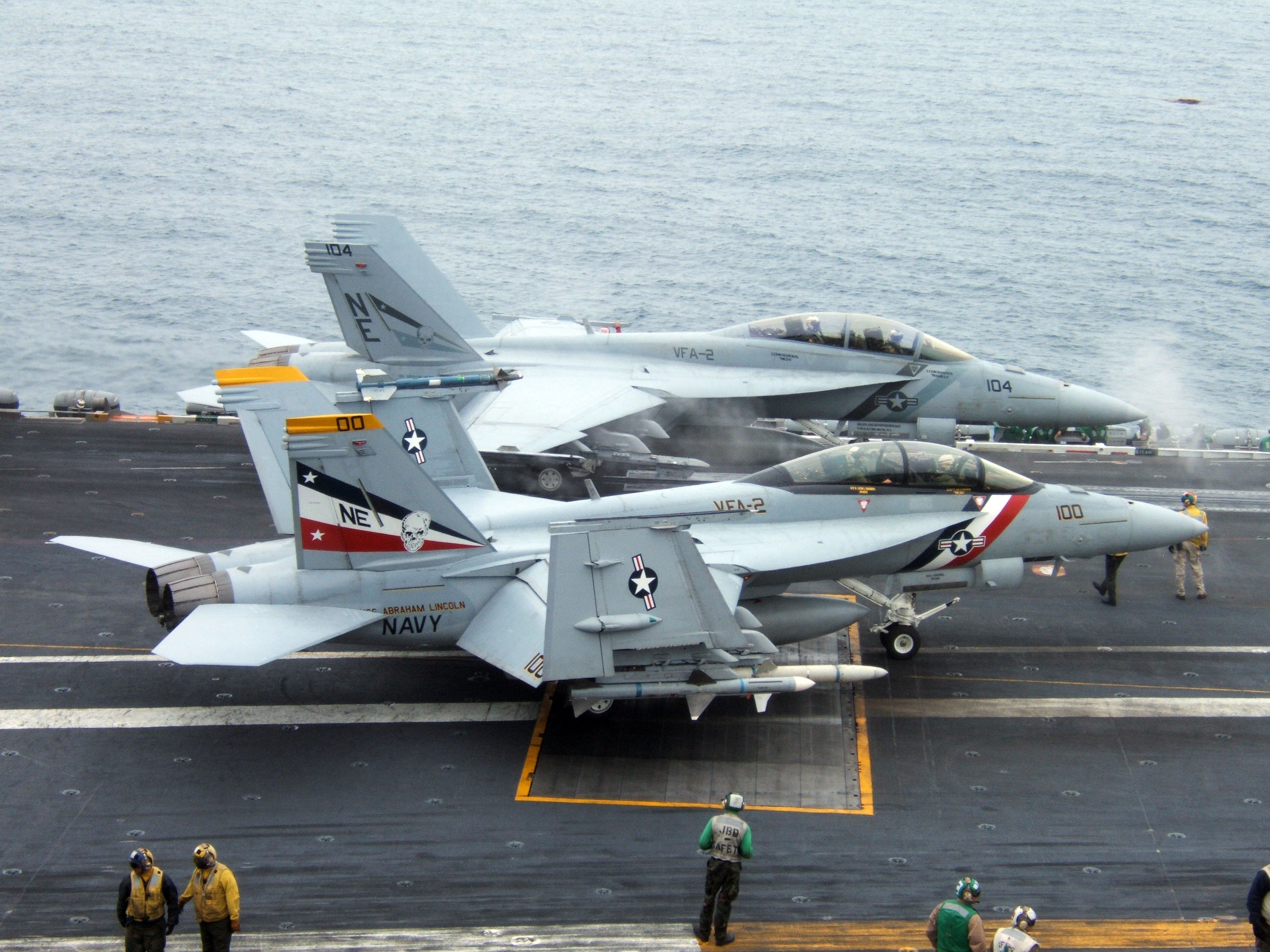 Pacific Ocean (July 14, 2005) - F/A-18F Super Hornets, assigned to the "Bounty Hunters" of Strike Fighter Squadron Two (VFA-2), prepare to launch from the flight deck aboard the USS Abraham Lincoln (CVN 72). VFA-2 is assigned to Carrier Air Wing Two (CVW-2), currently embarked aboard the Nimitz-class aircraft carrier. Lincoln is at sea conducting readiness training in support of the Navy's Fleet Response Plan. U.S. Navy photo by Midshipman John Ivancic (RELEASED)